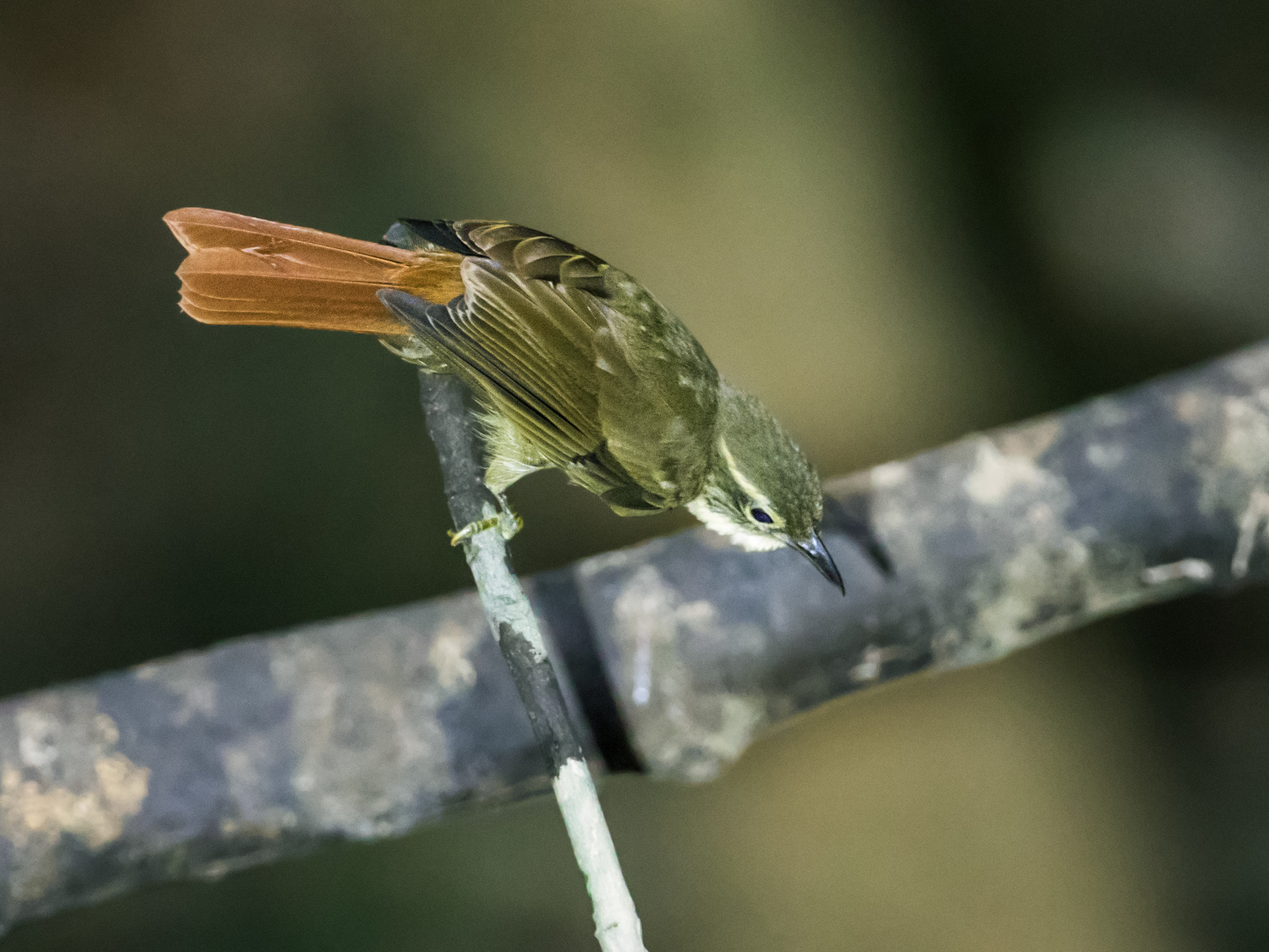 Rufous-rumped Foliage-gleaner from Cristalino Jungle Lodge - Mato Grosso - Brazil